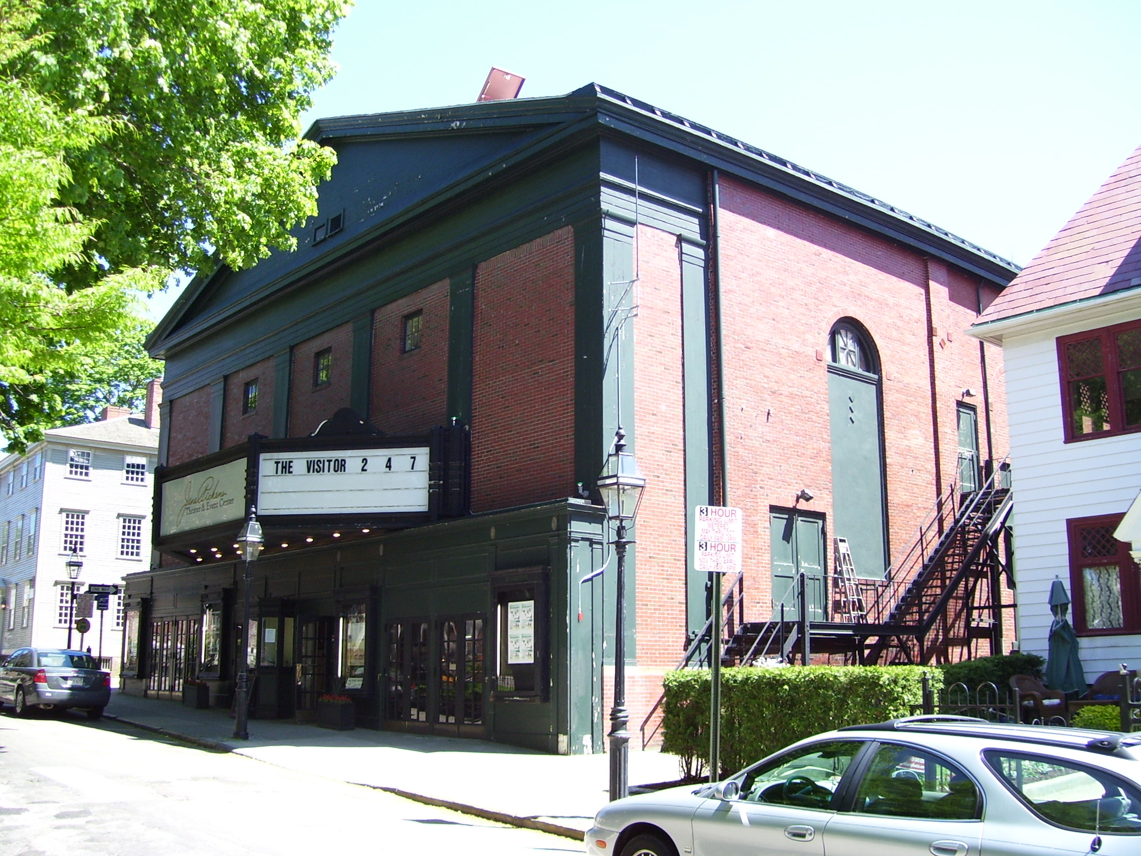 The Jane Pickens Theater & Event Center — in Newport, Rhode Island. Brick building was originally designed to house the Zion Episcopal Church, in 1834 by architect Russell Warren (1783 – 1860). Venue of the former Newport International Film Festival (1998 - 2009). Credits My 2008 photo.